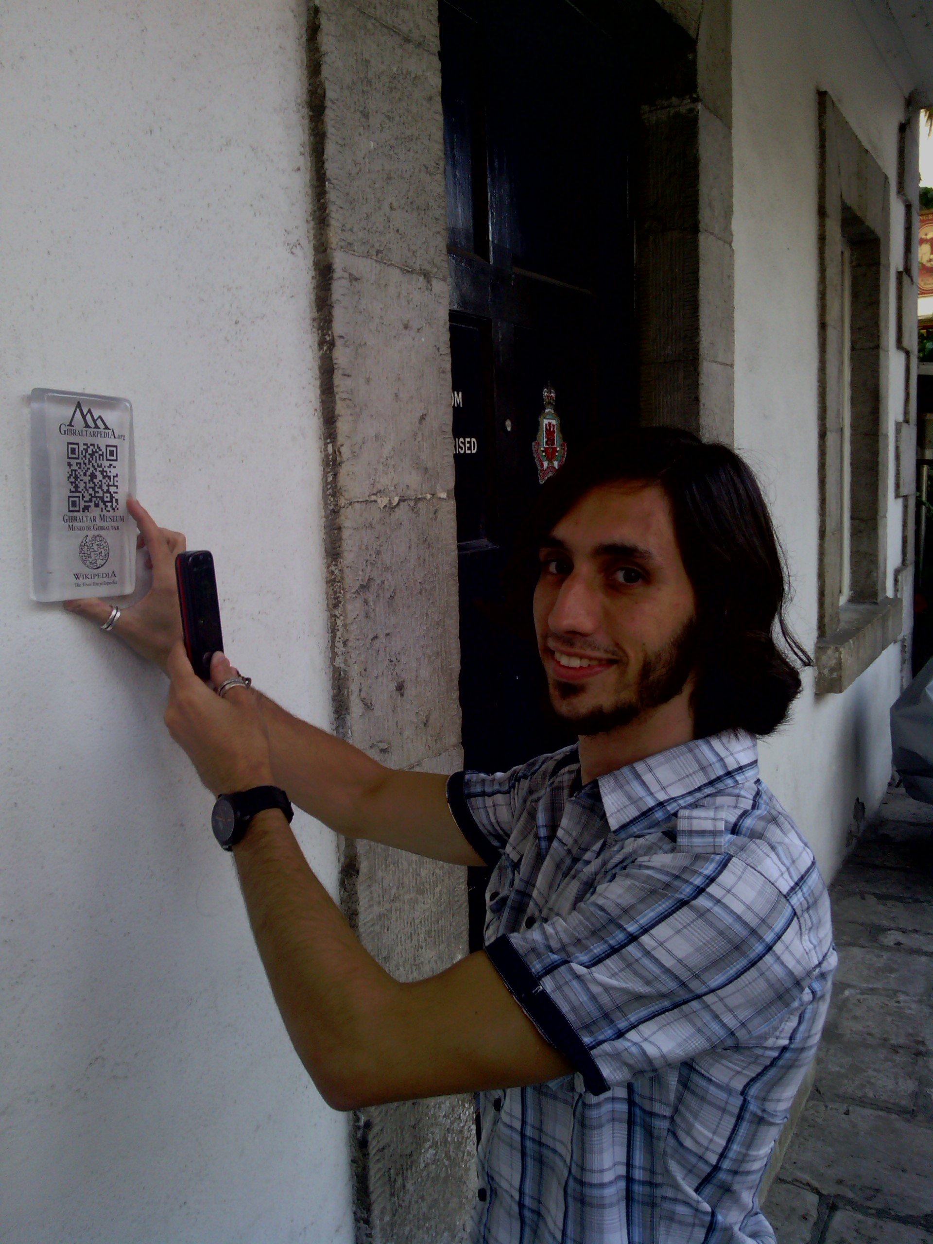 Tyson Lee Holmes with trial gibratarpedia plaque in gibraltar